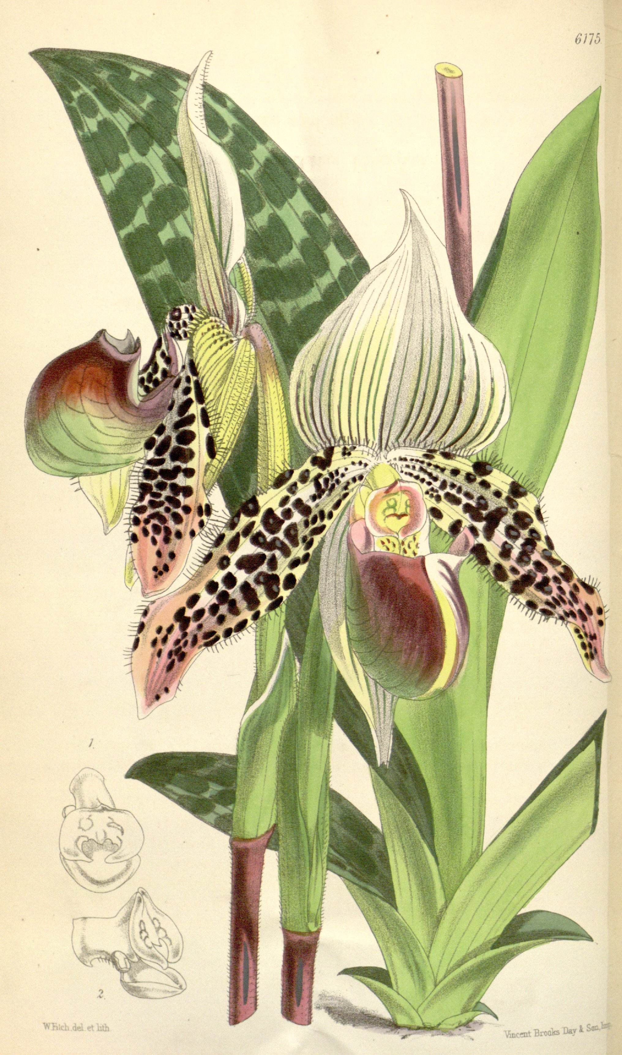 Illustration of Paphiopedilum argus (as syn. Cypripedium argus)